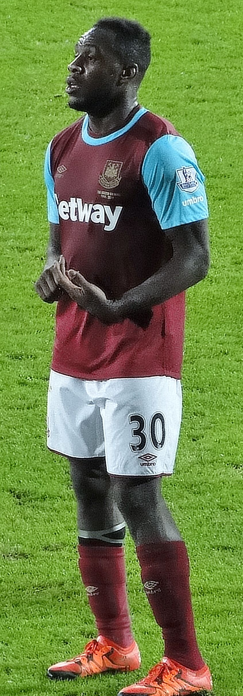 West Ham United player, Michail Antonio during their Premier League defeat of Southampton at the Boleyn Ground, December 2015